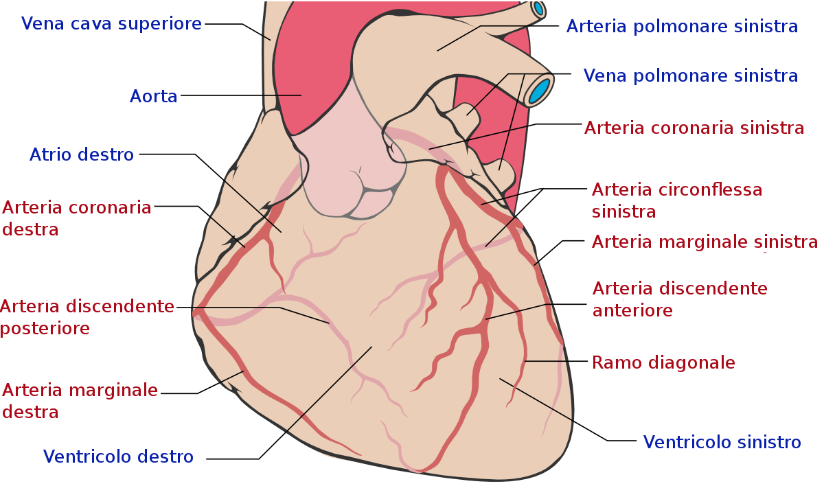 Coronary circulation, with coronary arteries labeled in red text and other landmarks in blue text. This vector graphics image was originally created with Adobe Illustrator, and modified with Inkscape. iThe source code of this SVG is valid.